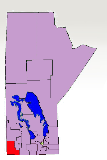 The 1998-2011 electoral district boundaries for Arthur-Virden highlighted in red.